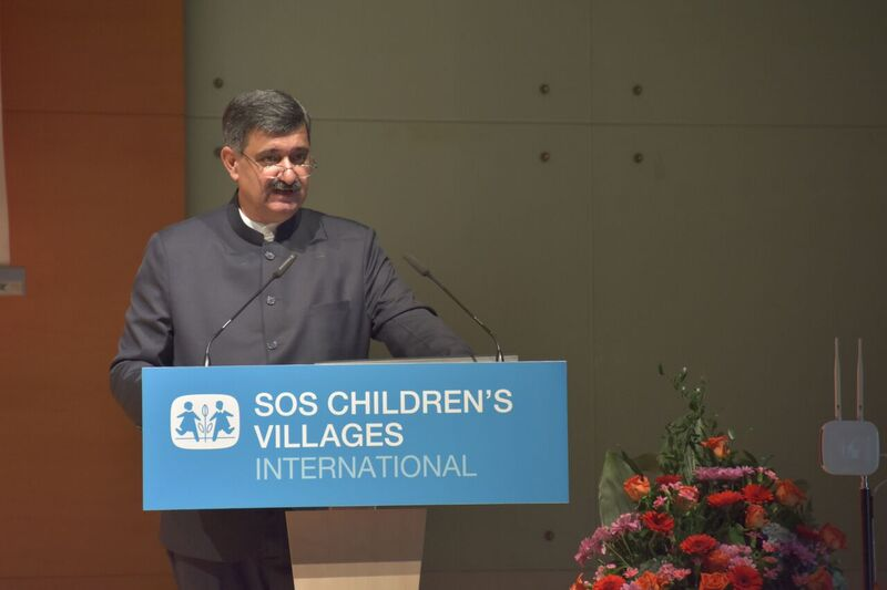 President Kaul speaking during the General Assembly 2016